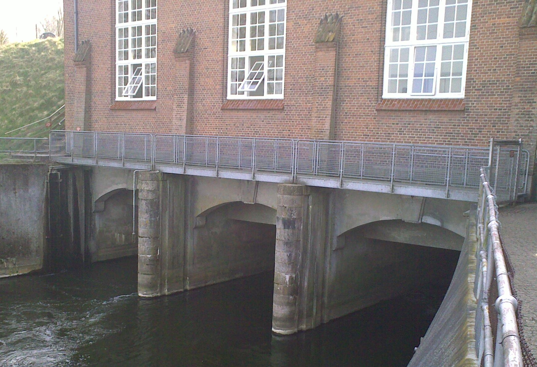 Water flow under machinery hall of the largest hydroelectric power plant in Denmark, Tangeværket. Also part of The Danish Museum of Electricity.